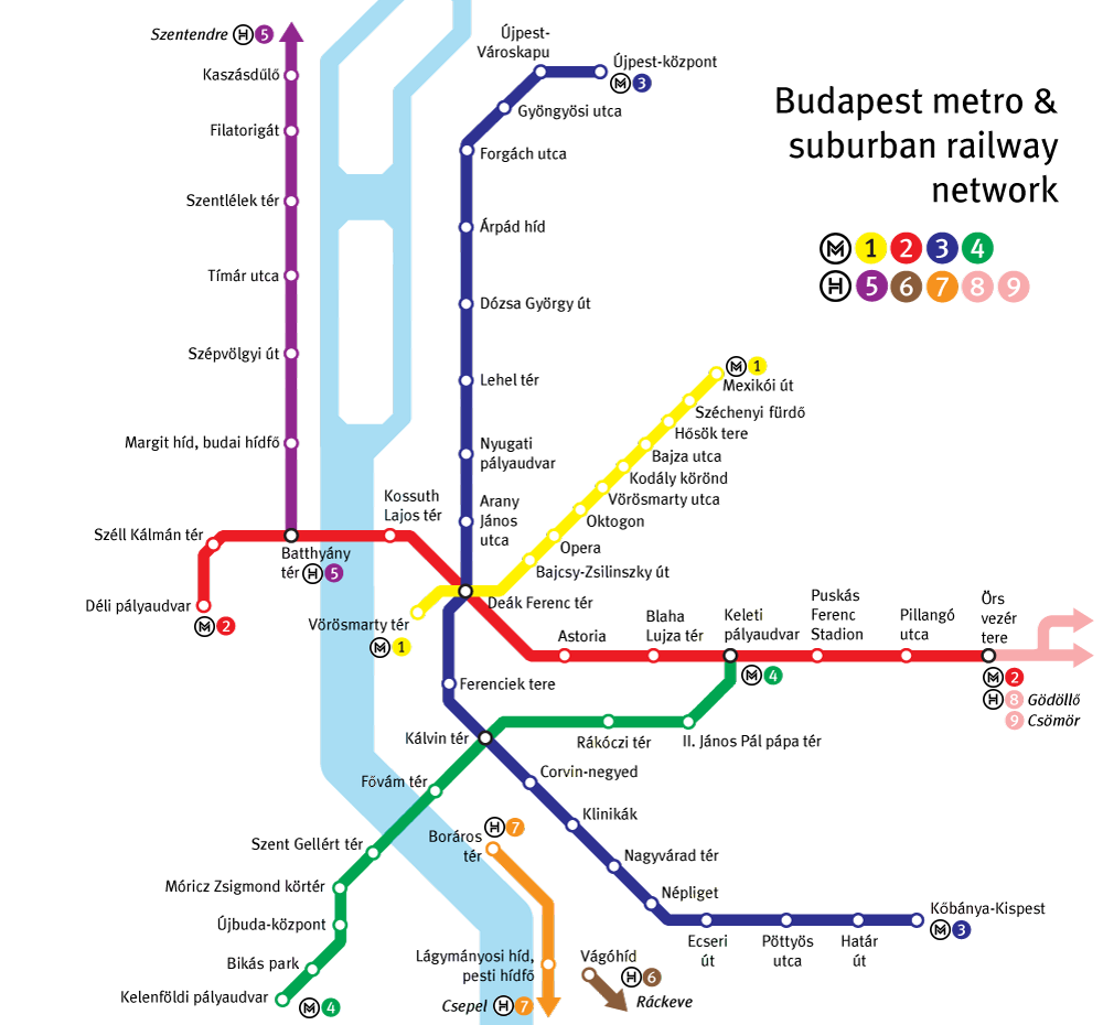 Map of the Budapest Metro network